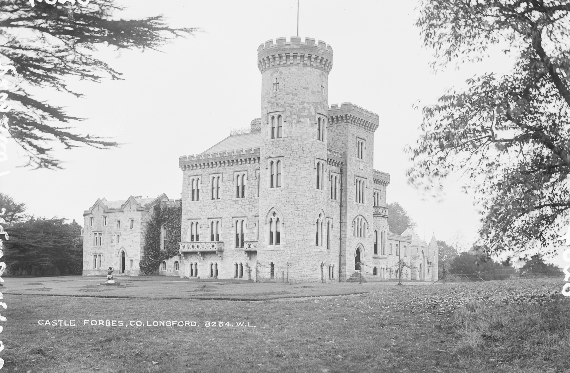 Today we visit Castle Forbes in Co. Longford for a change of scene. Photographer: Robert French Collection: Lawrence Photograph Collection Date: Between 1865- 1914 NLI Ref: L_CAB_08264 You can also view this image, and many thousands of others, on the NLI’s catalogue at